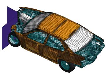 Numerical simulation of a vehicle crash.